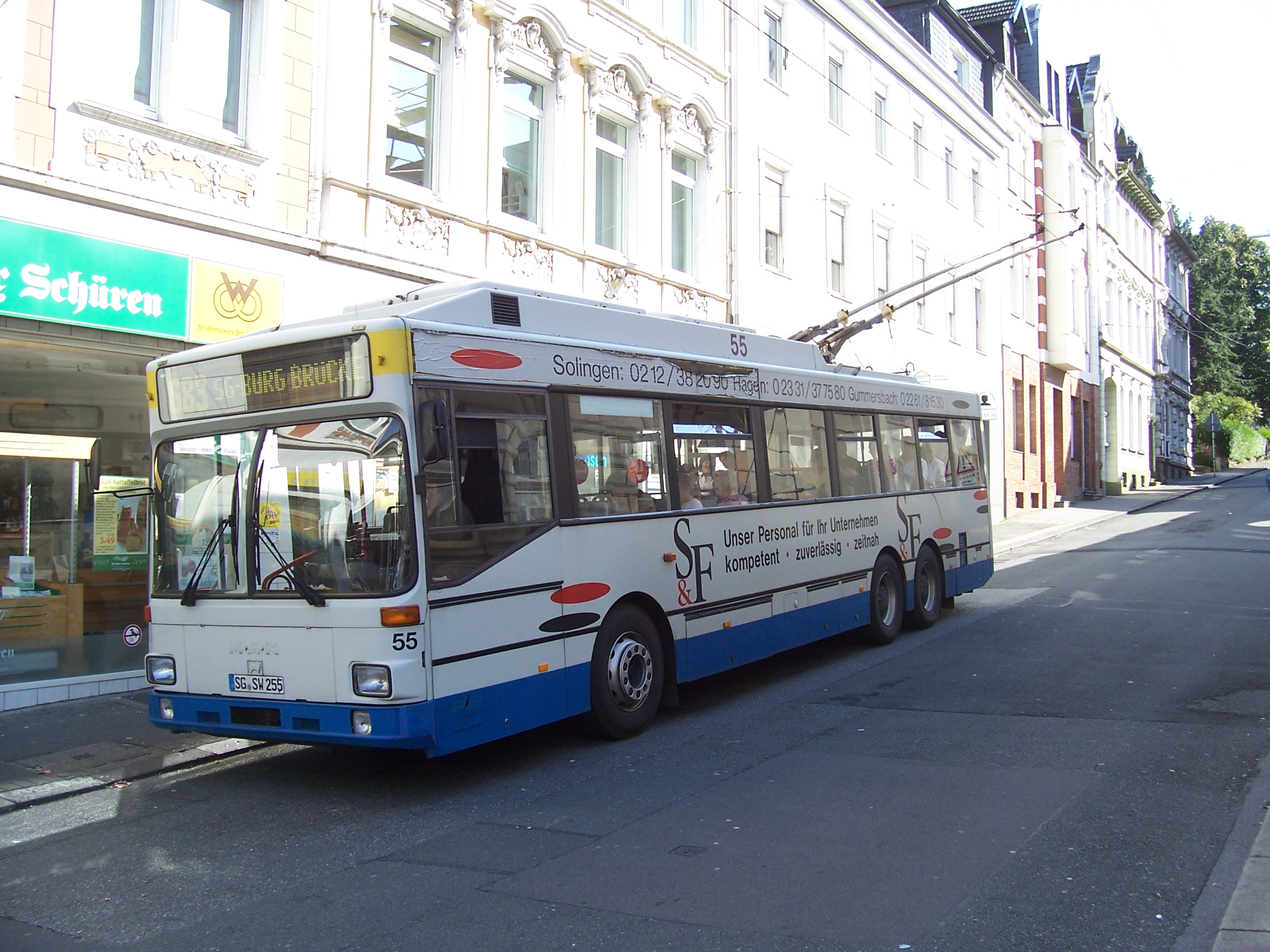 An MAN trolleybus of the Solingen system, at Vohwinkel terminus in Wuppertal.